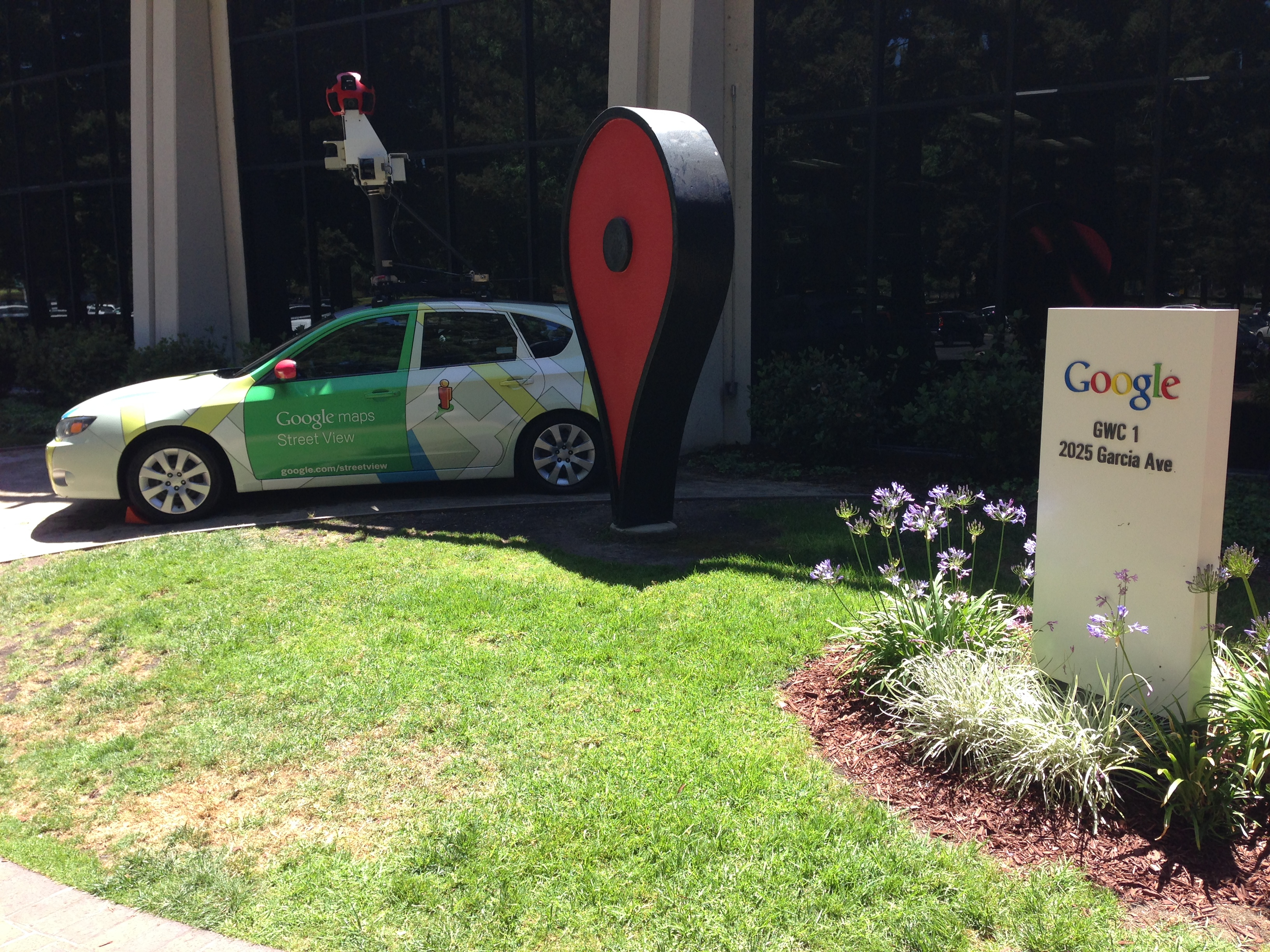 Street View camera car and giant map pushpin. Mountain View, California